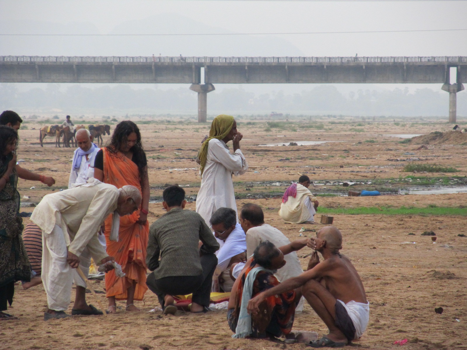 Vishnupad Temple, Gaya